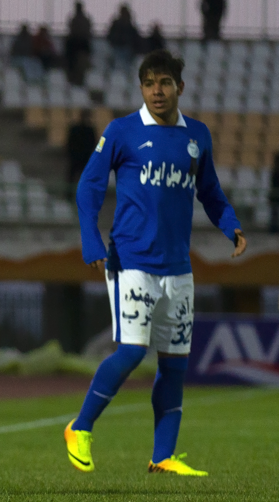 Esteghlal Football Club until 1979 known as Taj Football Club (Persian: تاج, meaning Crown) is an Iranian professional football club based in Tehran that plays in the Persian Gulf Pro League. Esteghlal F.C. is the football club of the multisport Esteghlal Athletic and Cultural Club